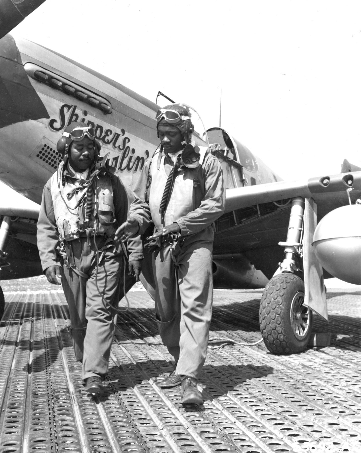 L2/Group/332nd Ftr/pho 1